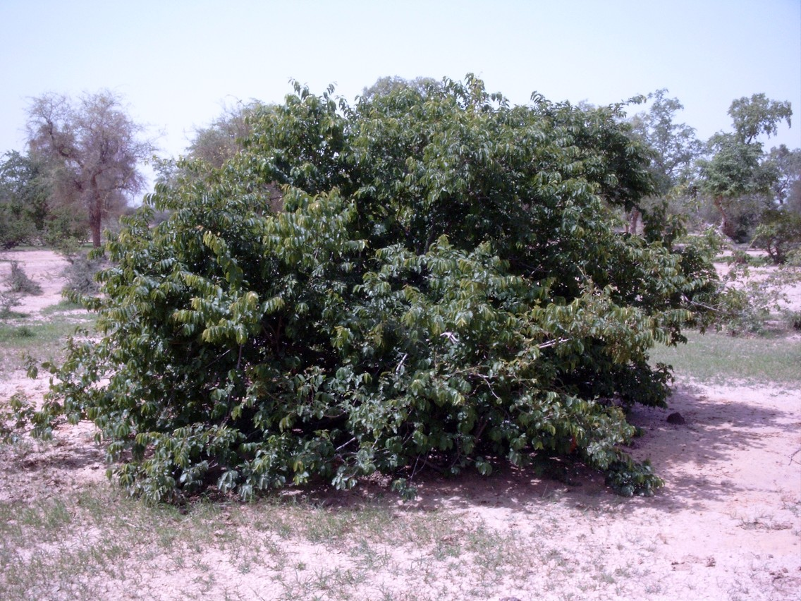 Combretum micranthum between Oursi and Gorom-Gorom, Oudalan, Burkina Faso.